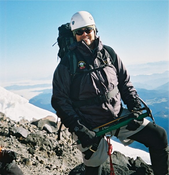 Summitting Mt. Rainier.